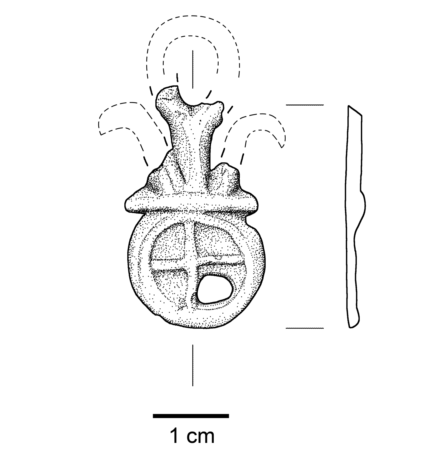 Pendant type Včelince from grave 66 of Neumarkt an der Ybbs.